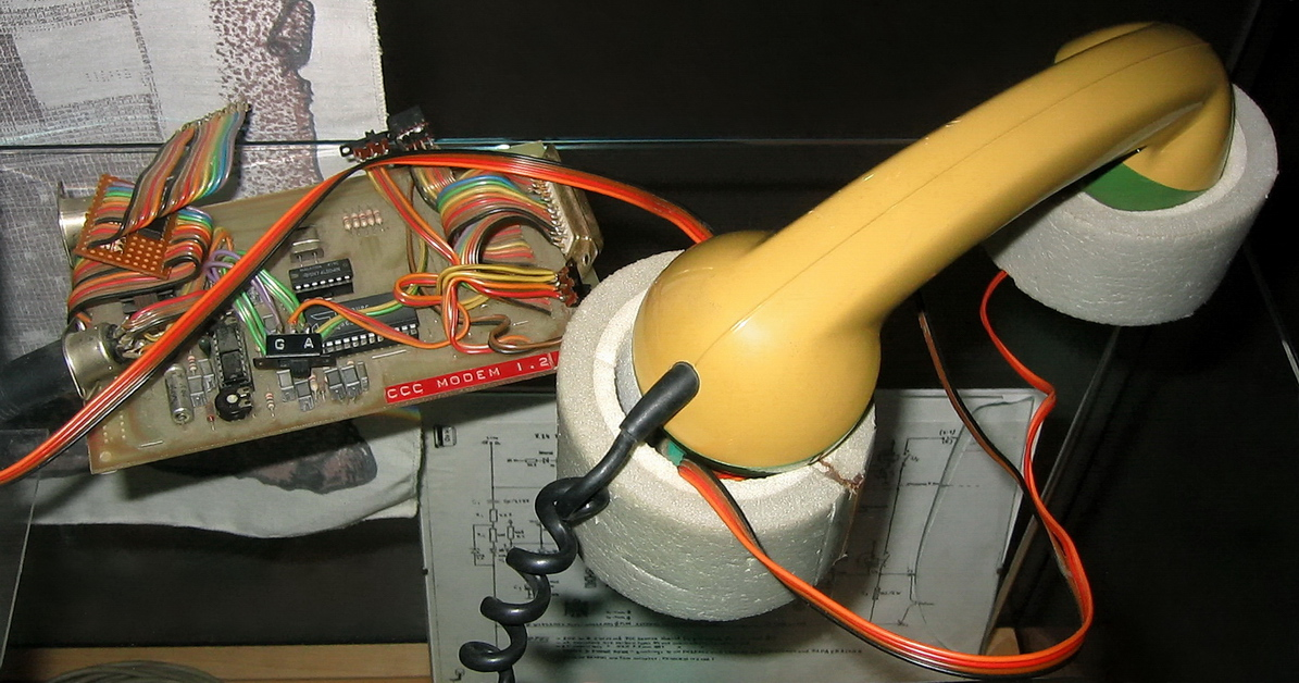 Acoustic coupler of the Chaos Computer Club, also known under the name "Datenklo". The name, meaning "data toilet", was derived from the fact that the two foam parts visible in the picture were originally intended for sanitary installations.